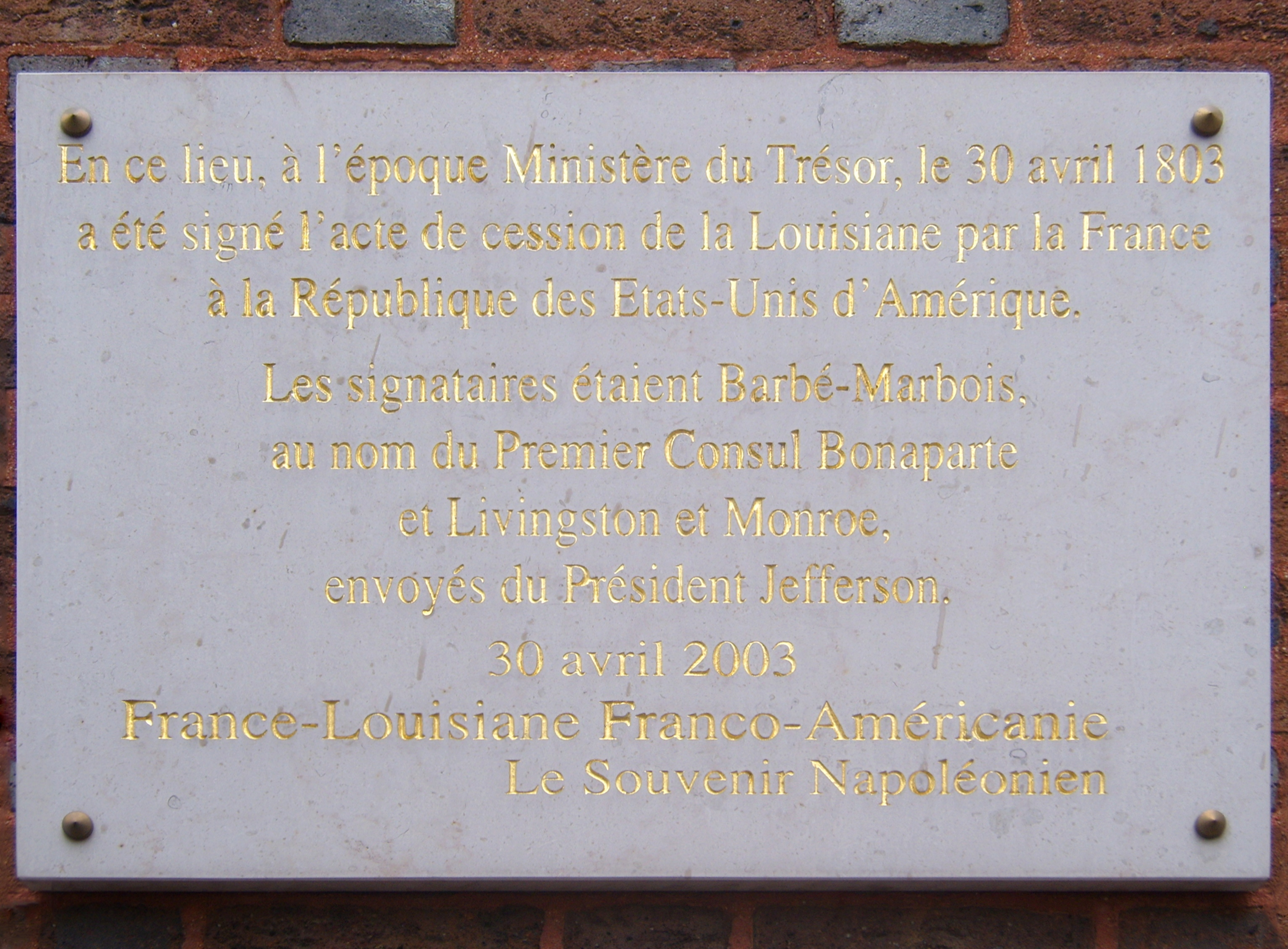 commemorative plaque in Paris about the Louisianna purchase